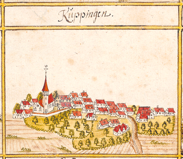 View of Kuppingen, Herrenberg, from the forest register books created by Andreas Kieser